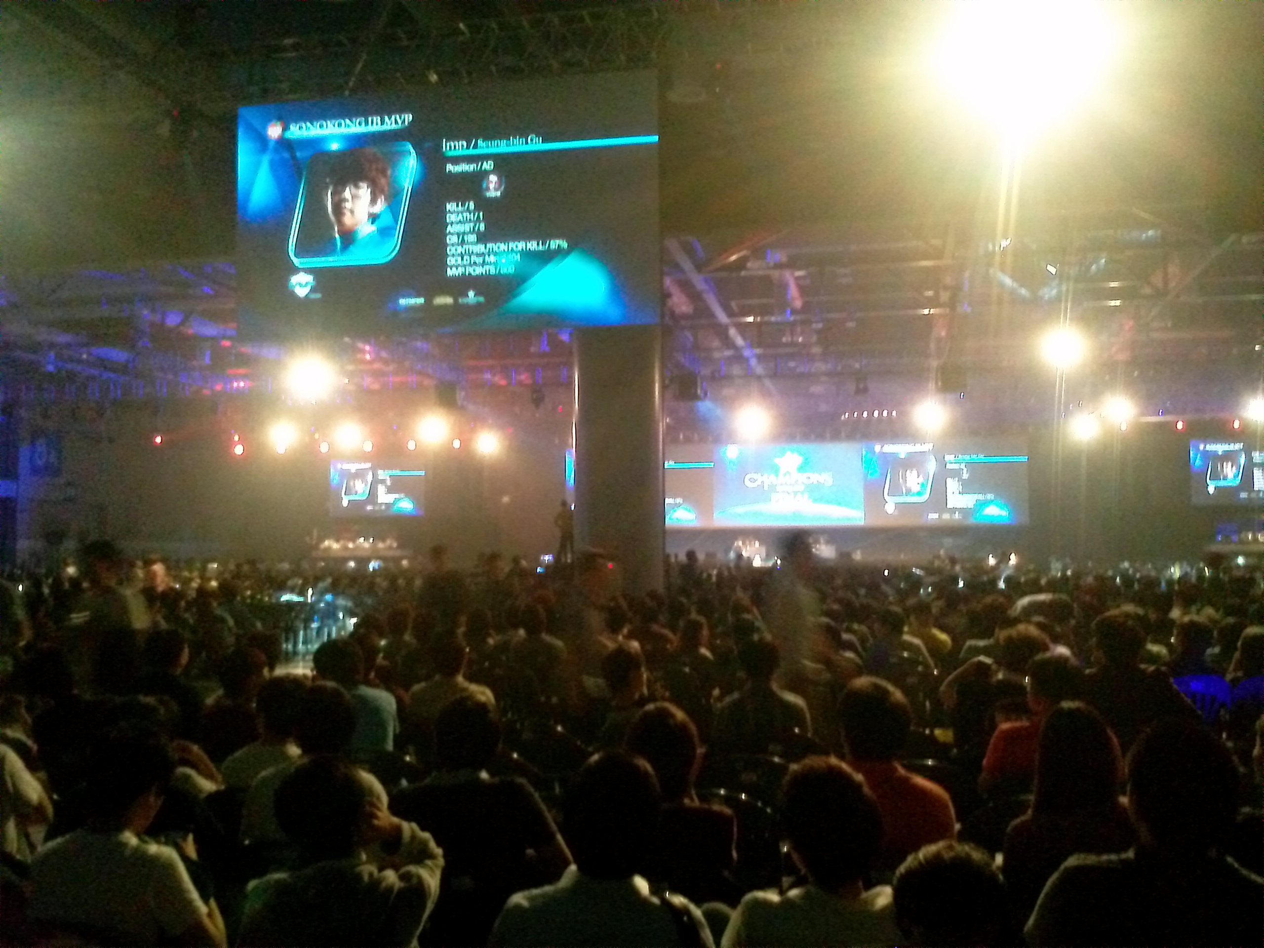 LOL the Champions 2013 Spring final at ilsan KINTAX